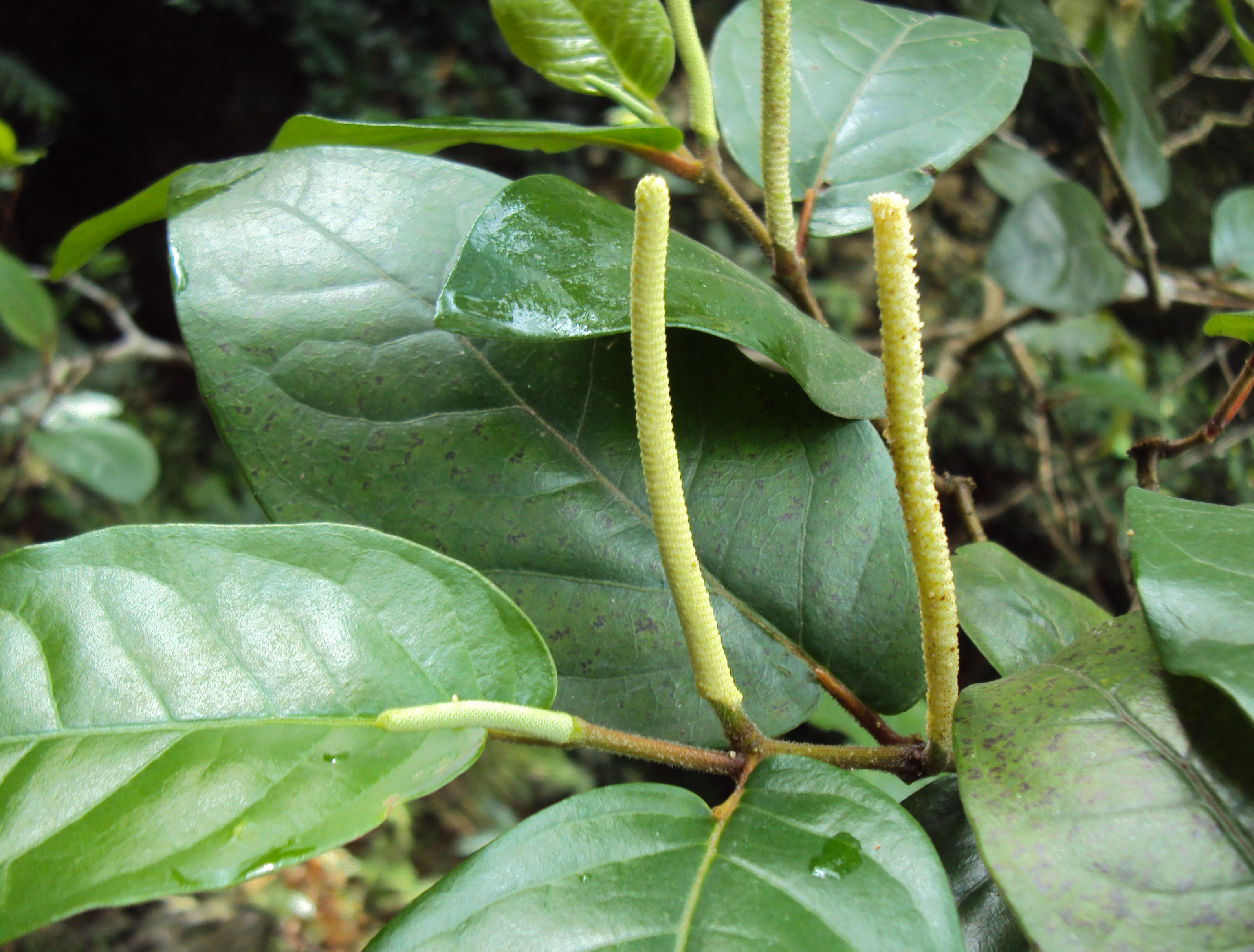 Piper colubrinum